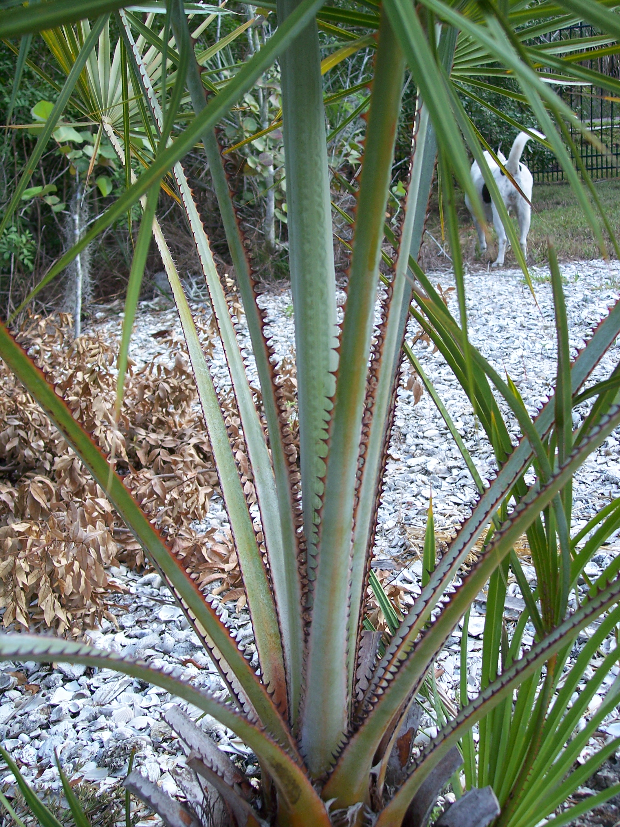 Armed petioles on Copernicia glabrescens - Tampa, Florida